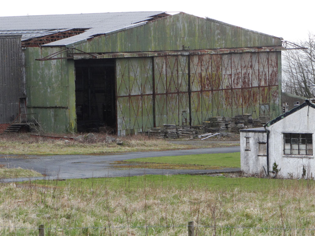 Something sad about seeing once busy hangers rotting away, former Saunders Roe site, just outside Beaumaris.